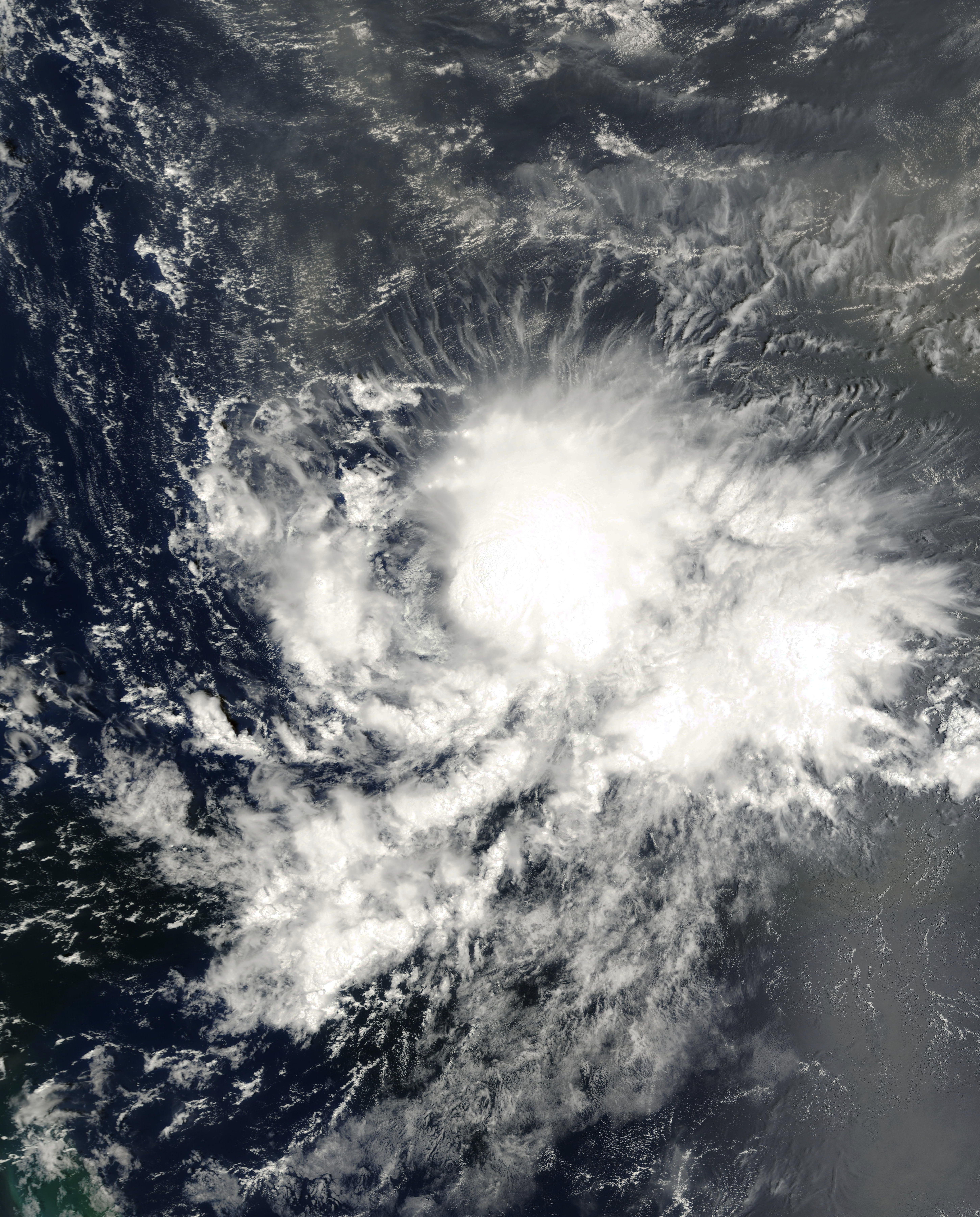 Hurricane Joyce (14L) at peak intensity on September 28, 2000.